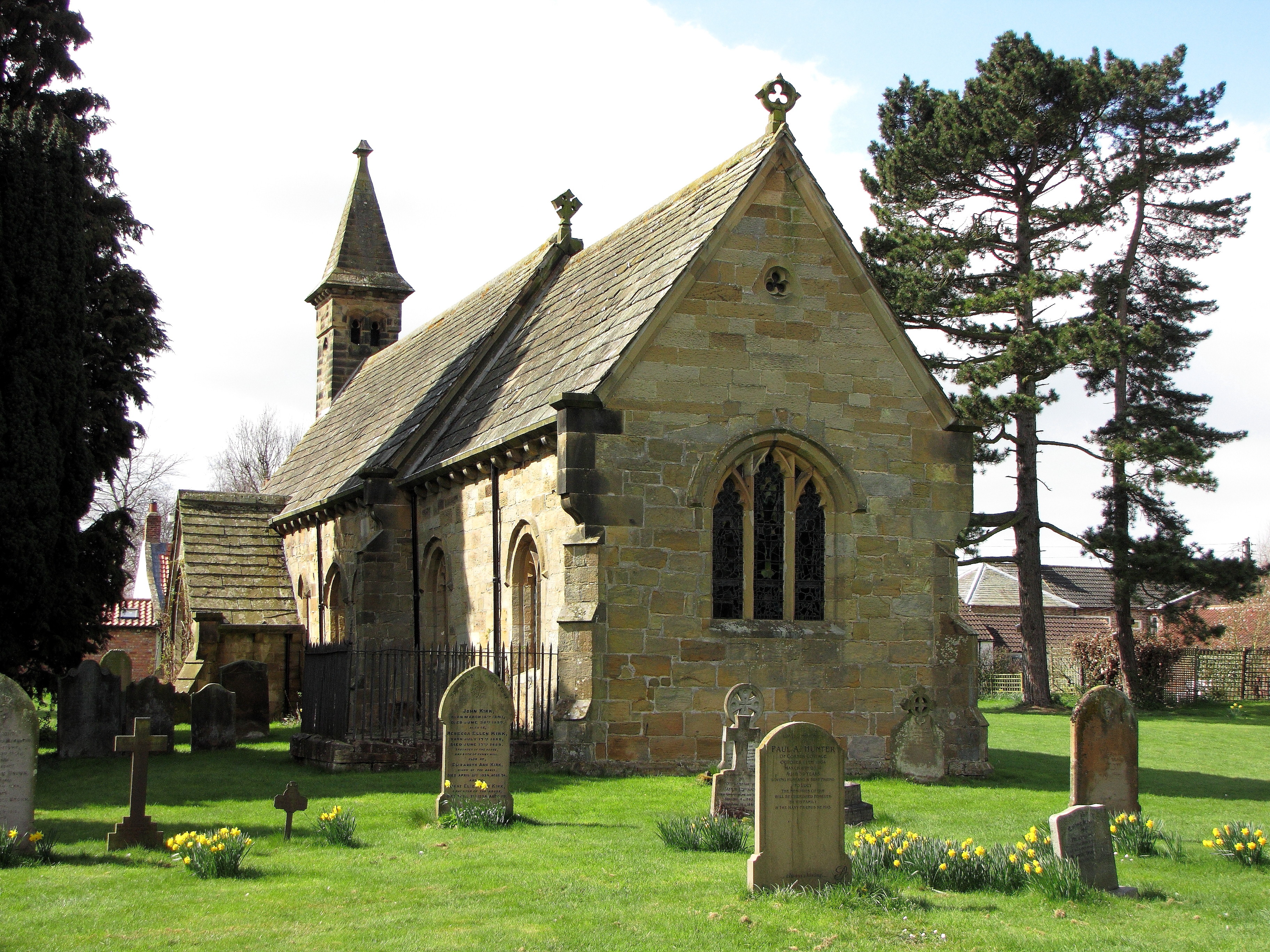 St Leonard's Church, Thornton-le-Street Described in 1890 as "a small neat structure, consisting of nave, chancel, porch, and small belfry with two bells, on the west gable. There are indications in the architecture of the oldest portions that point to the twelfth century as the period of erection. In 1855, the edifice was restored in the Early English style, when the Norman chancel arch was replaced by a pointed one".